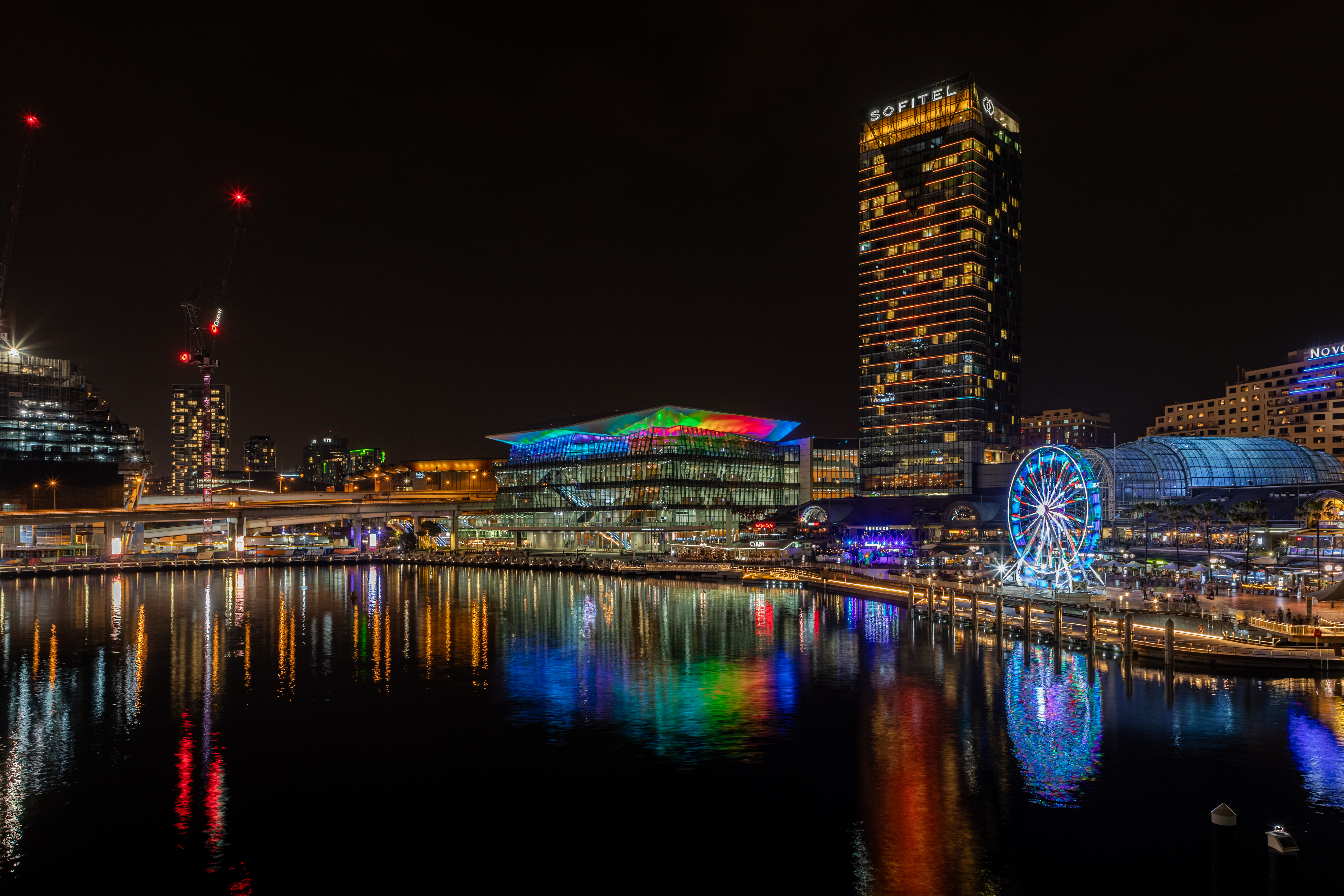 Darling Harbour, Sydney, New South Wales, Australia